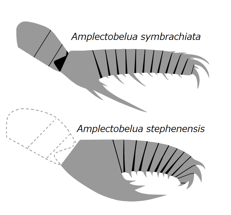 Frontal appendages of the radiodont genus Amplectobelua. Dash line indicating undescribed regions. Size not to scale.